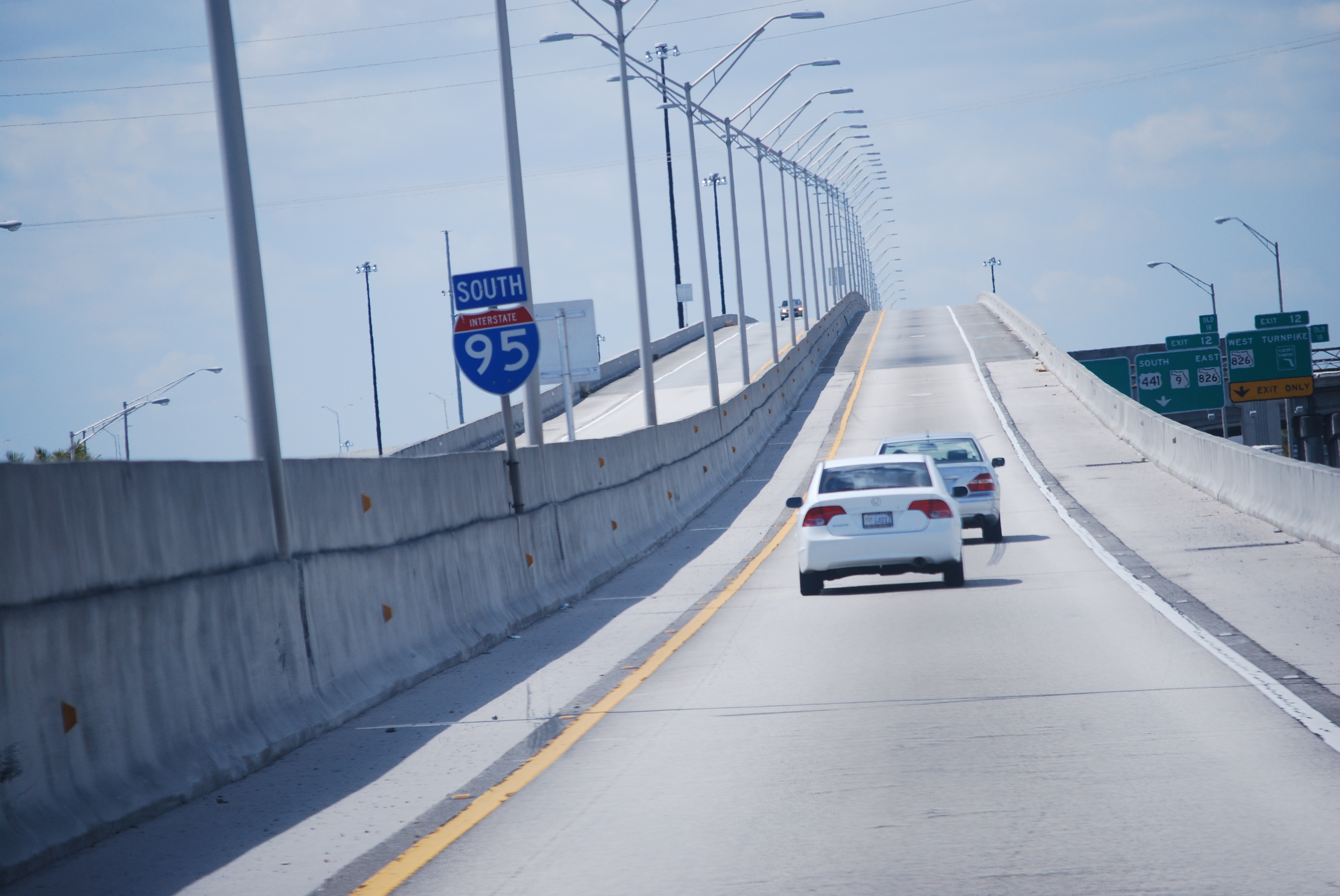 Interstate 95 near Miami, Florida